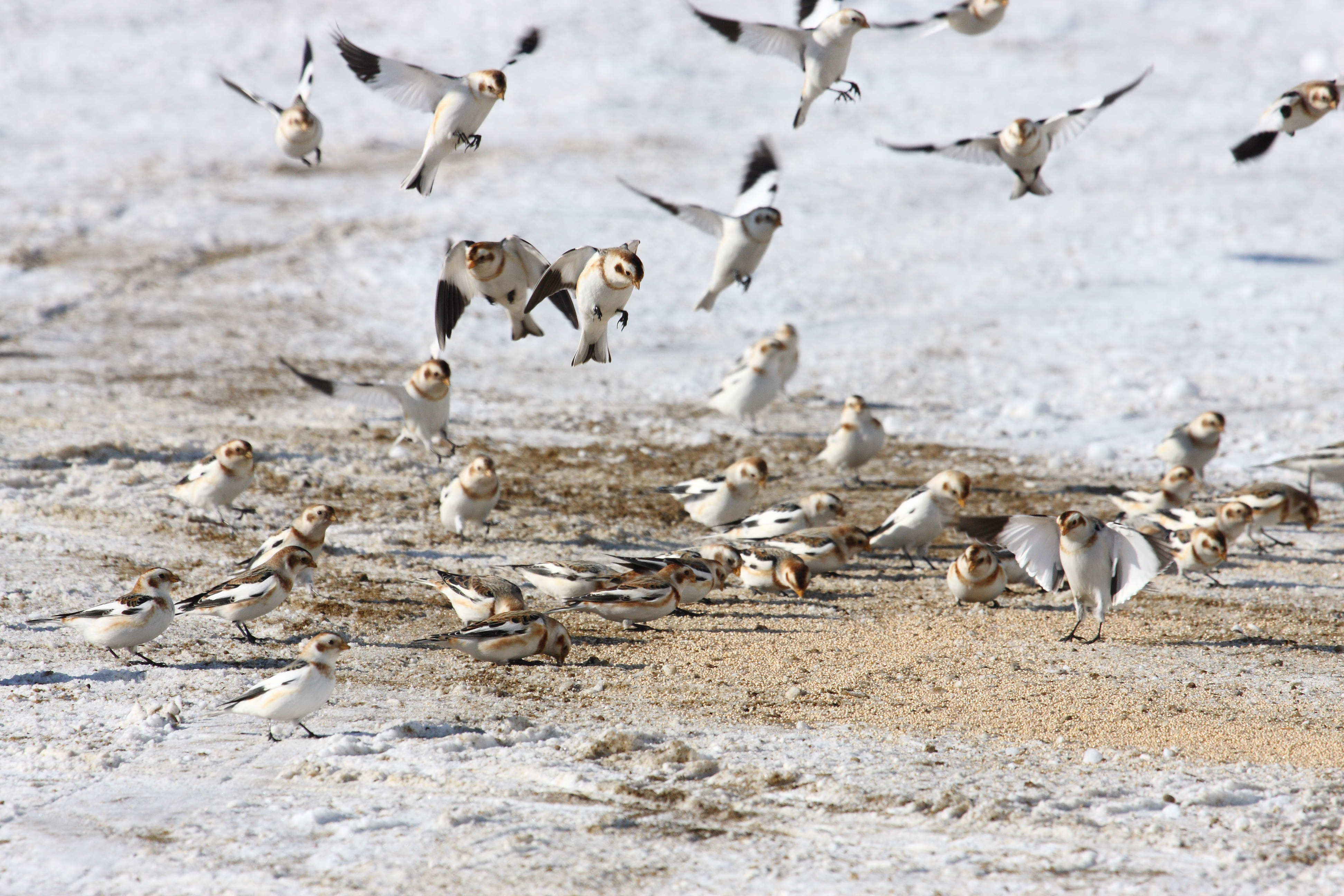 Snow Bunting, (Plectrophenax nivalis), feeding on millet, Cap Tourmente National Wildlife Area, Quebec, Canada